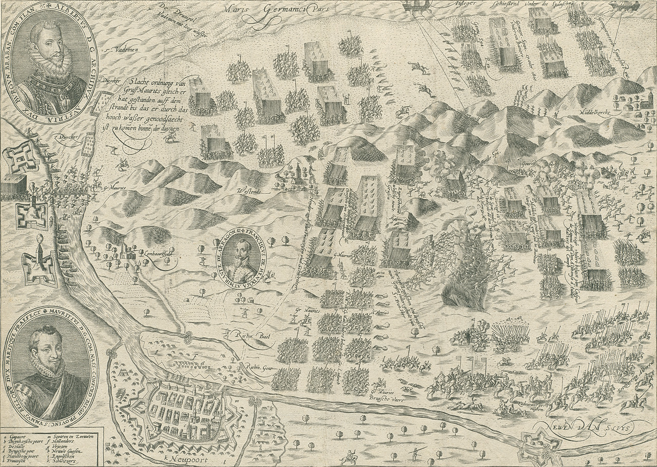 Battle of Nieuwpoort, 1600. Engraving. 316 × 445 mm. Amsterdam, Rijksmuseum Amsterdam, Prints, Frederik Mullen Historieplaten (inv.no. RP-P-OB-77.515).